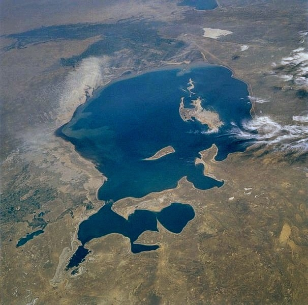 The Aral Sea, the fourth largest lake in the world, can be seen in this low-oblique, south-looking view. When this photograph was taken by the STS-51-F mission, the Aral Sea covered an area of approximately 26 000 square miles (67 000 square kilometers), was approximately 260 miles (420 kilometers) long, 175 miles (280 kilometers) wide, and had an average depth of 33 feet (10 meters) and a maximum depth of 220 feet (70 meters).